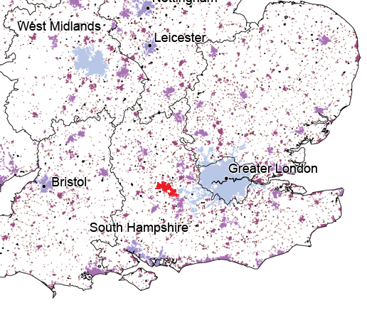 Reading/Wokingham Urban Area (red) located next to the Greater London Urban Area (grey/blue). Based on a figure from ONS